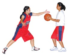 basketball